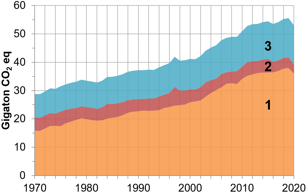 Global annual greenhouse gas emissions 1970–2018: 1) CO2 from fossil fuel use and industry, 2) CO2 from land use change, 3) other greenhouse gases Data sources: Emissions from land use change: Global Carbon Project. Supplemental data of Global Carbon Budget 2019 (Version 1.0) ( CO2 from fossil fuel use and industry, and other greenhouse gases: 1970–1989: Crippa, M., Oreggioni, G., Guizzardi, D., Muntean, M., Schaaf, E., Lo Vullo, E., Solazzo, E., Monforti-Ferrario, F., Olivier, J.G.J., Vignati, E., Fossil CO2 and GHG emissions of all world countries - 2019 Report, EUR 29849 EN, Publications Office of the European Union. Dataset: EDGARv5.0_FT2018 ( 1990–:Olivier J.G.J. and Peters J.A.H.W., Trends in global CO2 and total greenhouse gas emissions: 2019 report. Report no. 4068. PBL Netherlands Environmental Assessment Agency. (